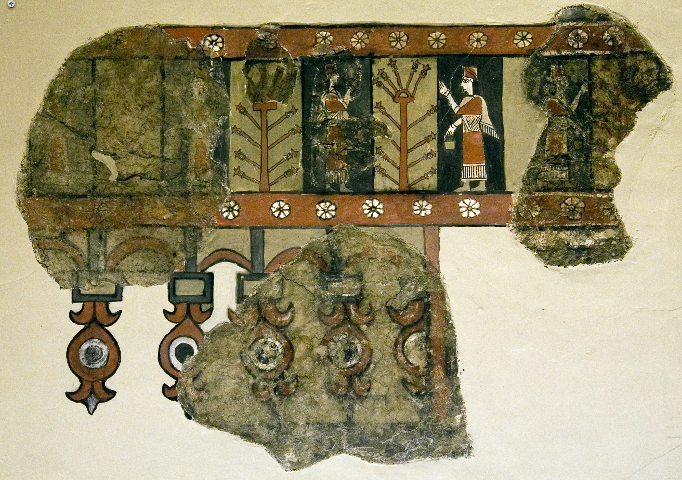 Urartian Fresco from Altintepe, Turkey